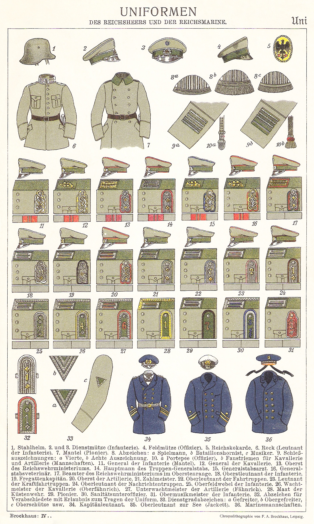 Uniforms and rank insignia of the Reichswehr.